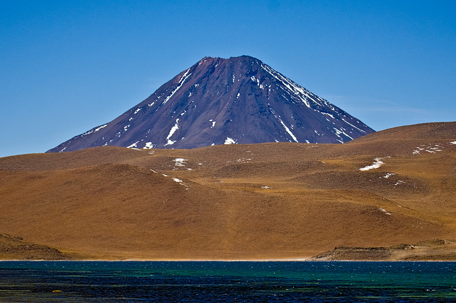 The Chiliques volcano, seen from the Miscanti lagooon. Chile - II Region